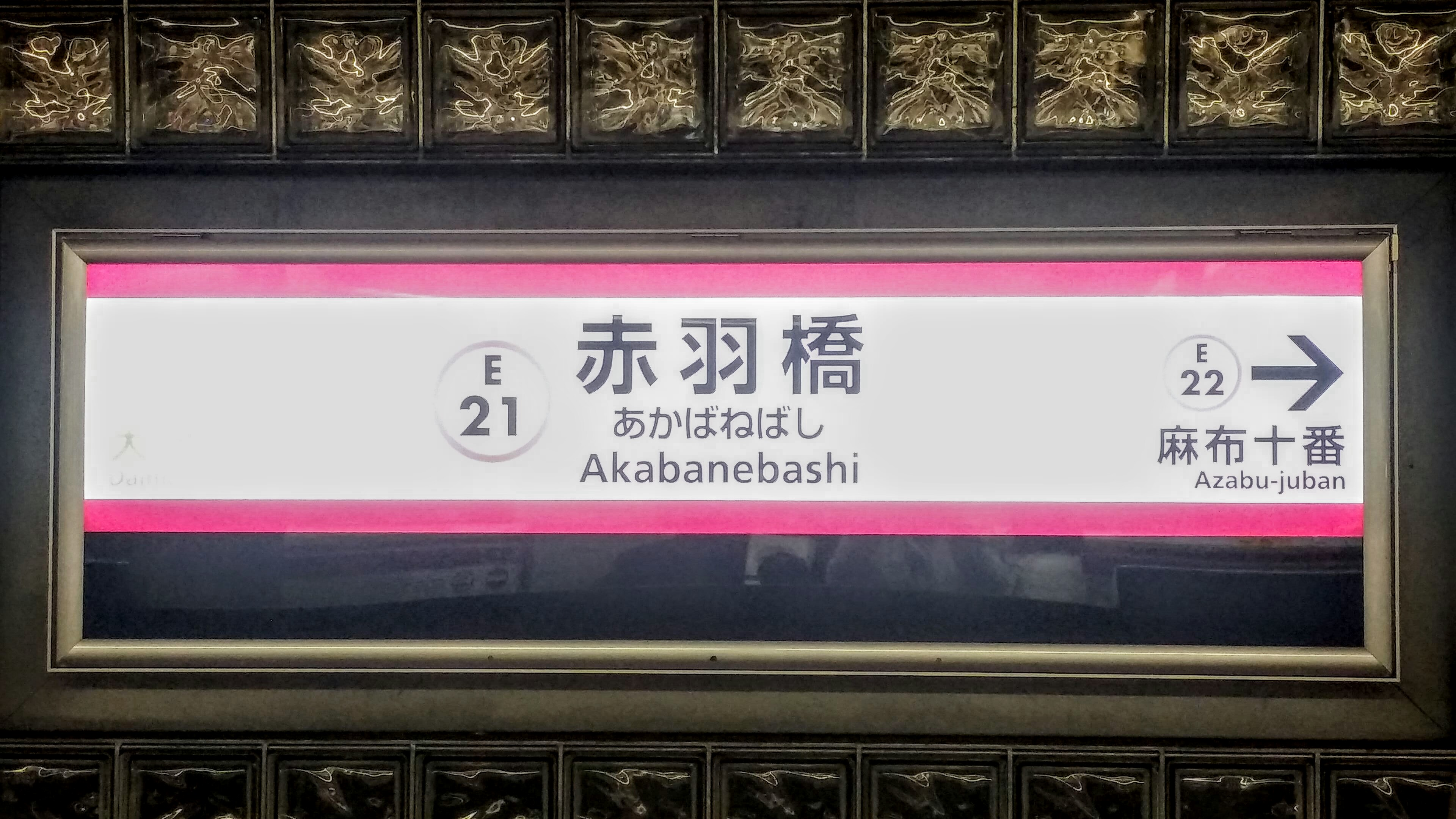 Light box of Akabanebashi Station